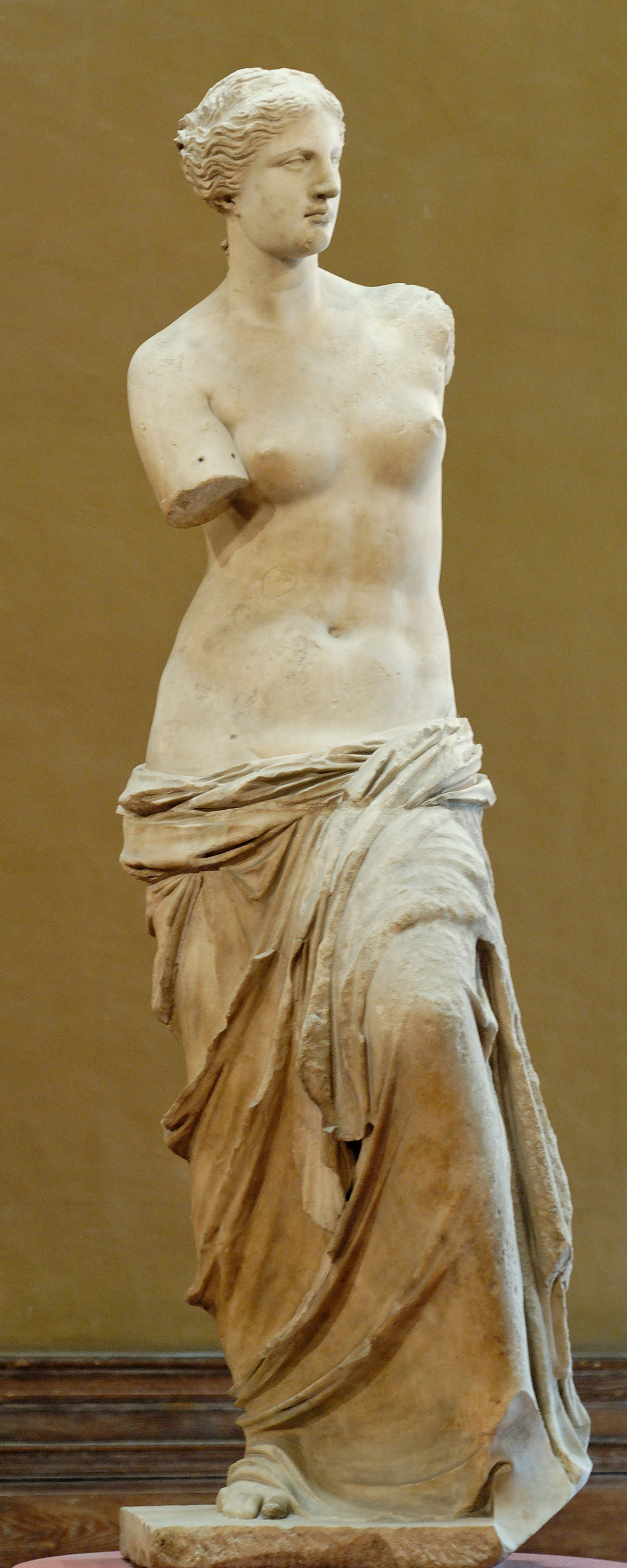 So-called “Venus de Milo” (Aphrodite from Melos). Parian marble, ca. 130-100 BC? Found in Melos in 1820.